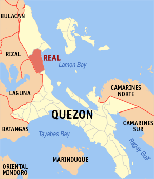 Map of Quezon showing the location of Real